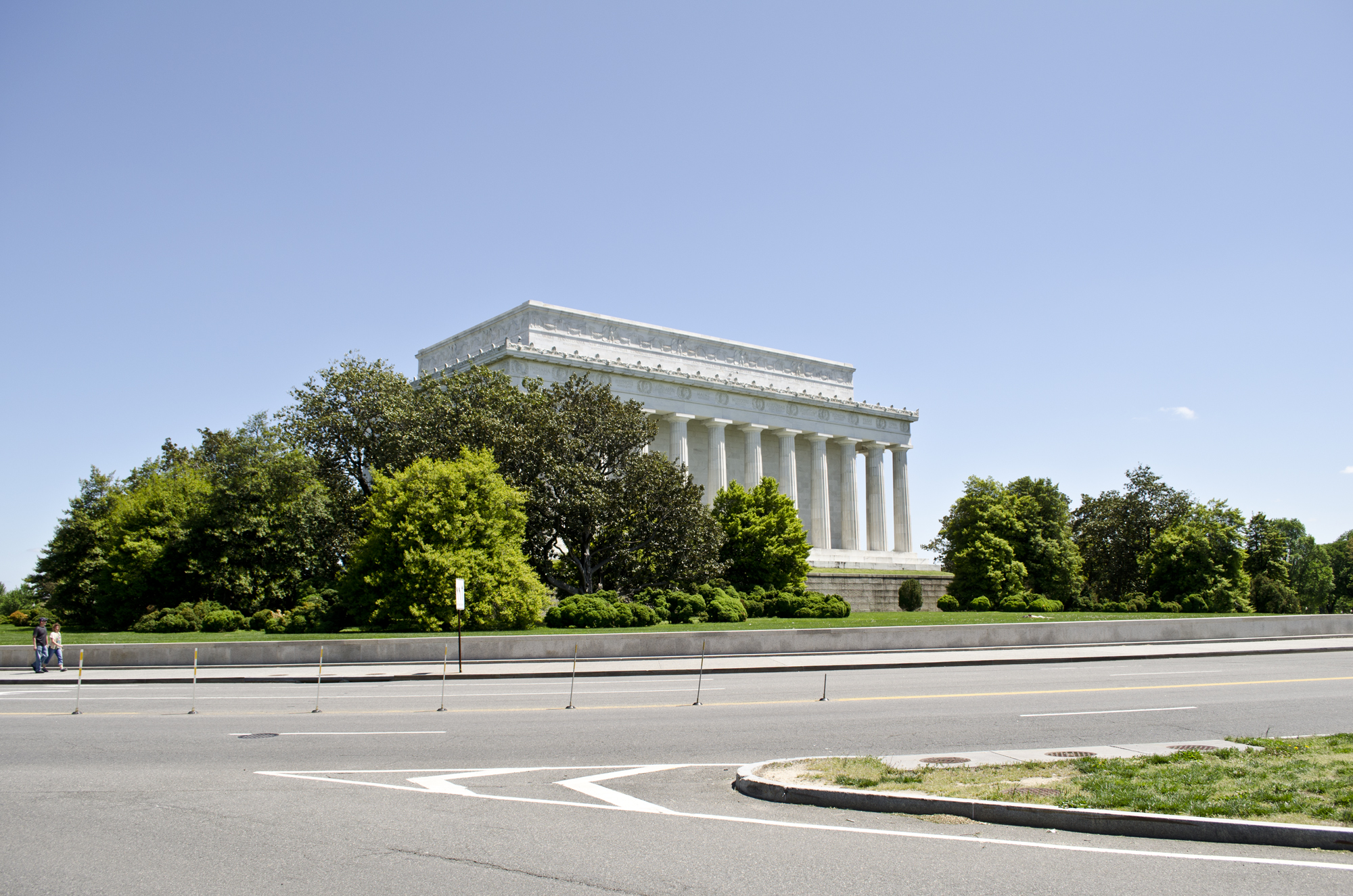 Looking southeast at the west face of the Lincoln Memorial in Washington, D.C., in the United States. The road visible in the foreground is the traffic circle around the memorial. The memorial originally was designed to be approached from either the east or west, but design changes led architect Henry Bacon to seal off the west side. It still features the memorial's iconic columns, however. The landscaping was designed by James Leal Greenleaf.